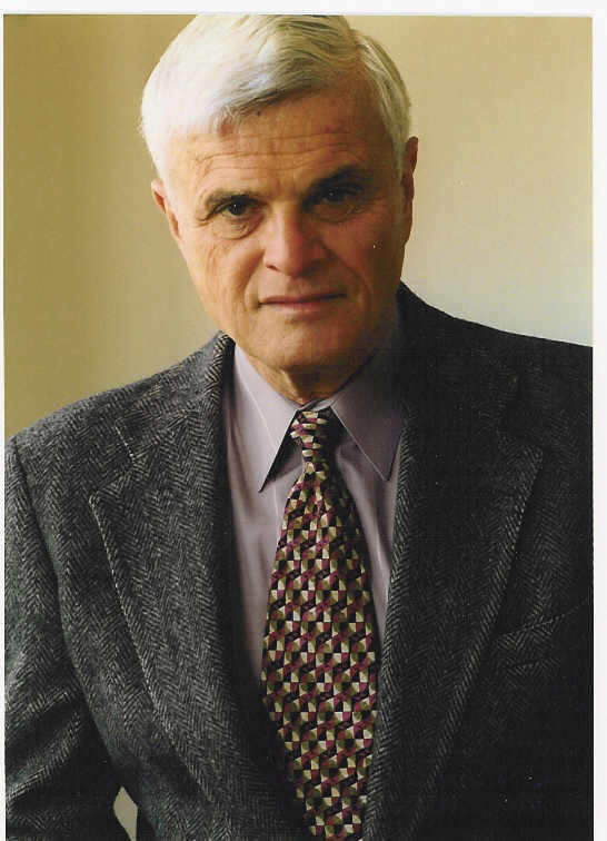 Photo of Roy Aarons